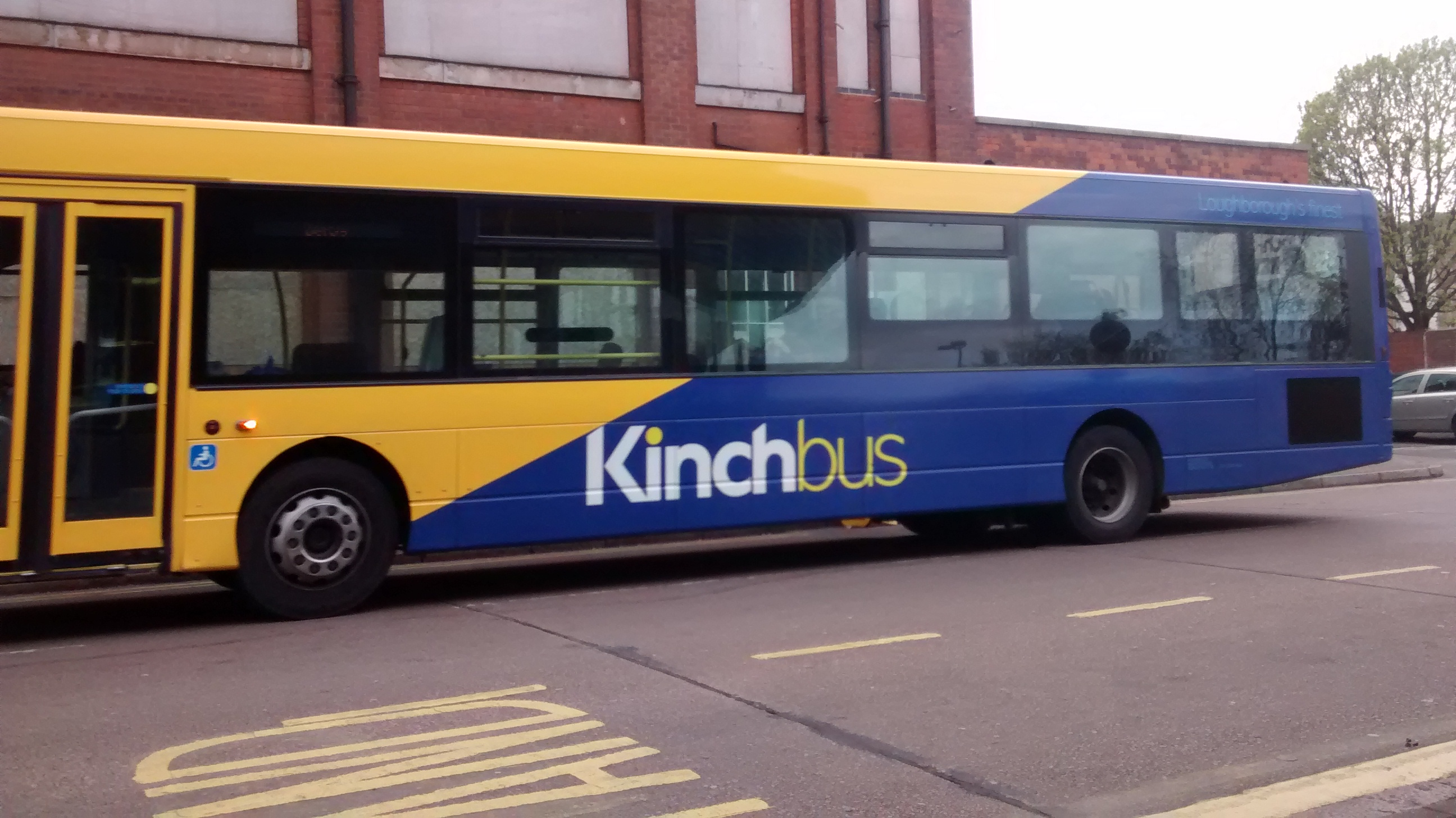 A Kinchbus bus in Leicester